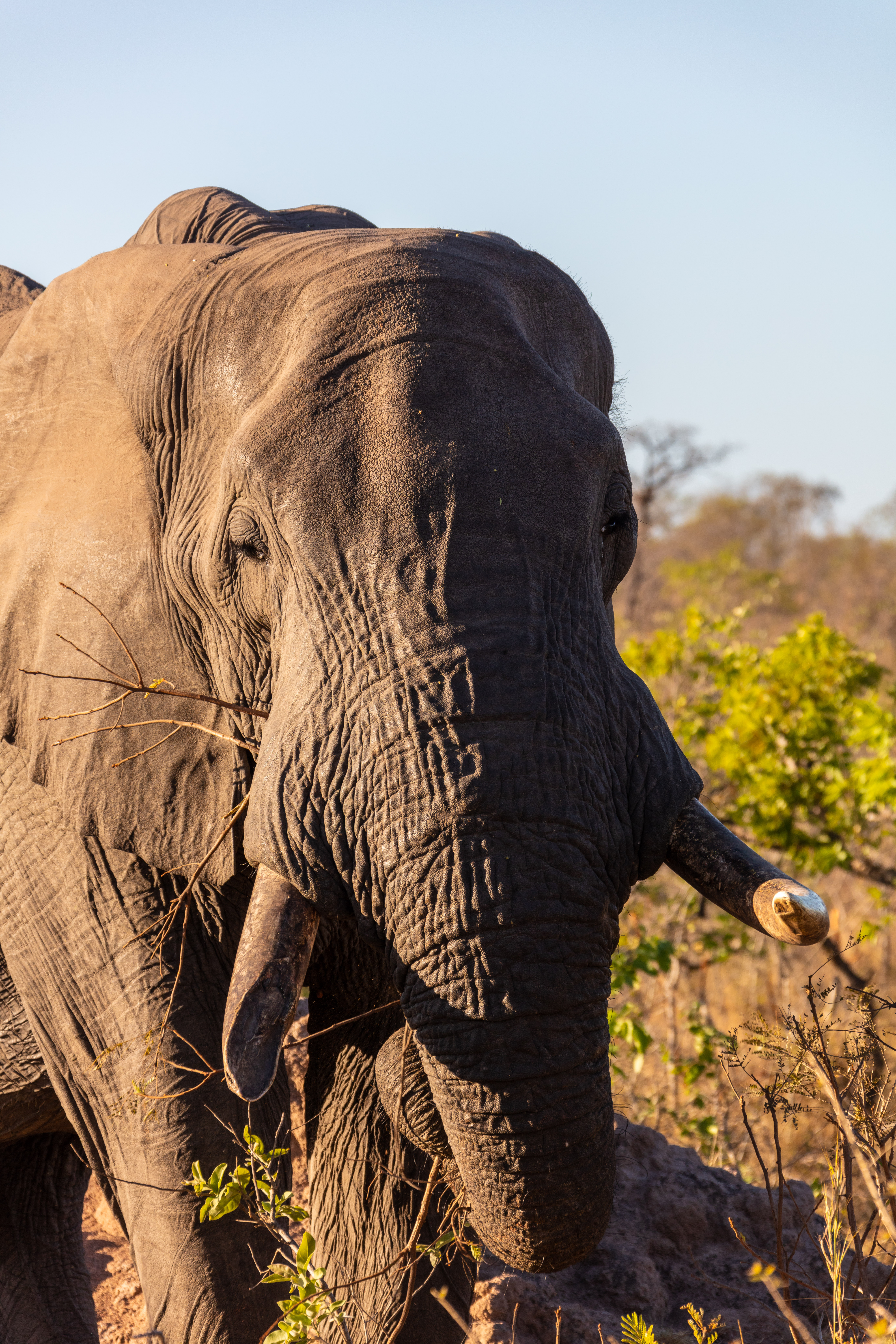 African bush elephant (Loxodonta africana), Kruger National Park, South Africa